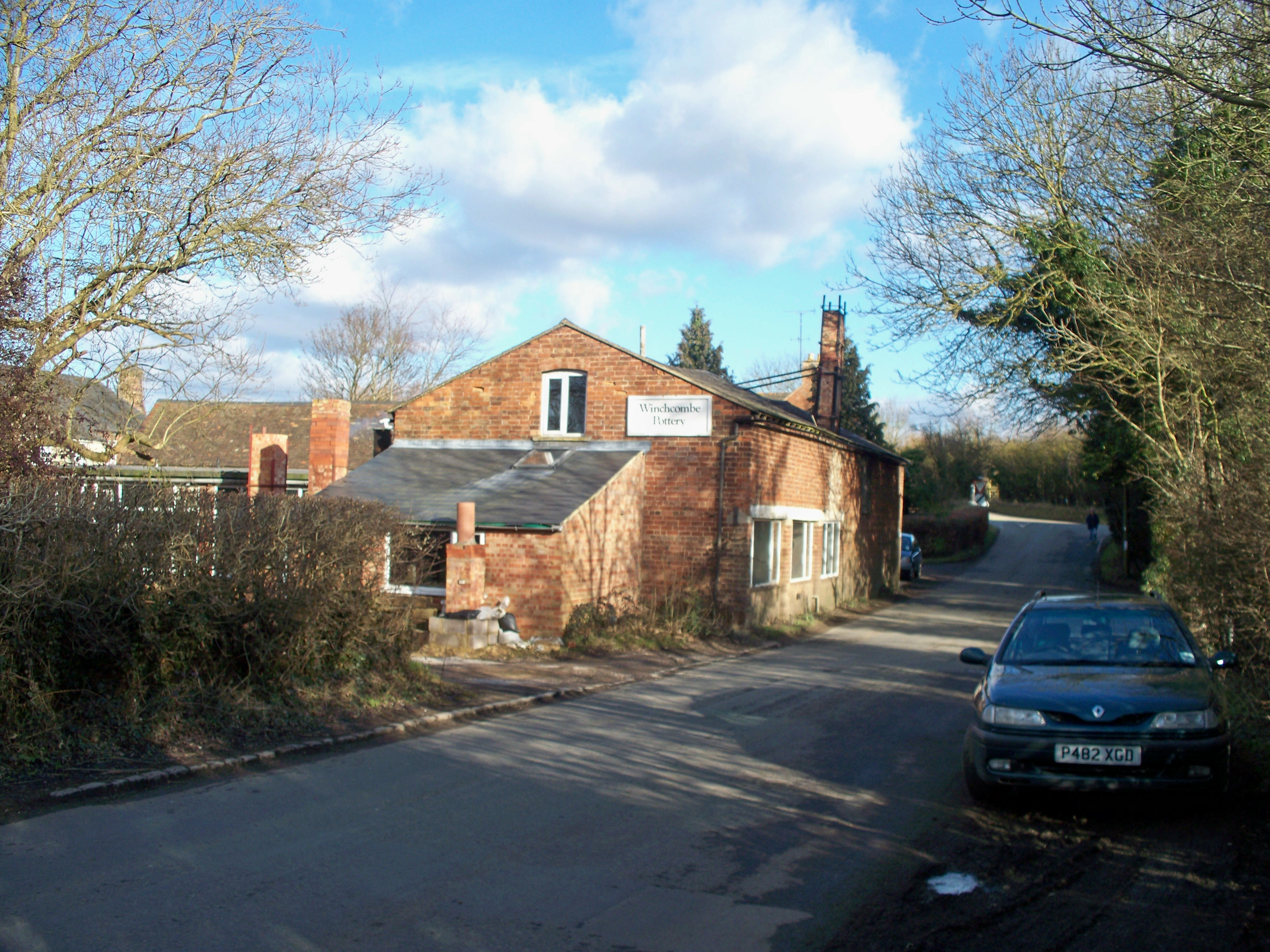 Winchcombe Pottery Seen from Becketts Lane.